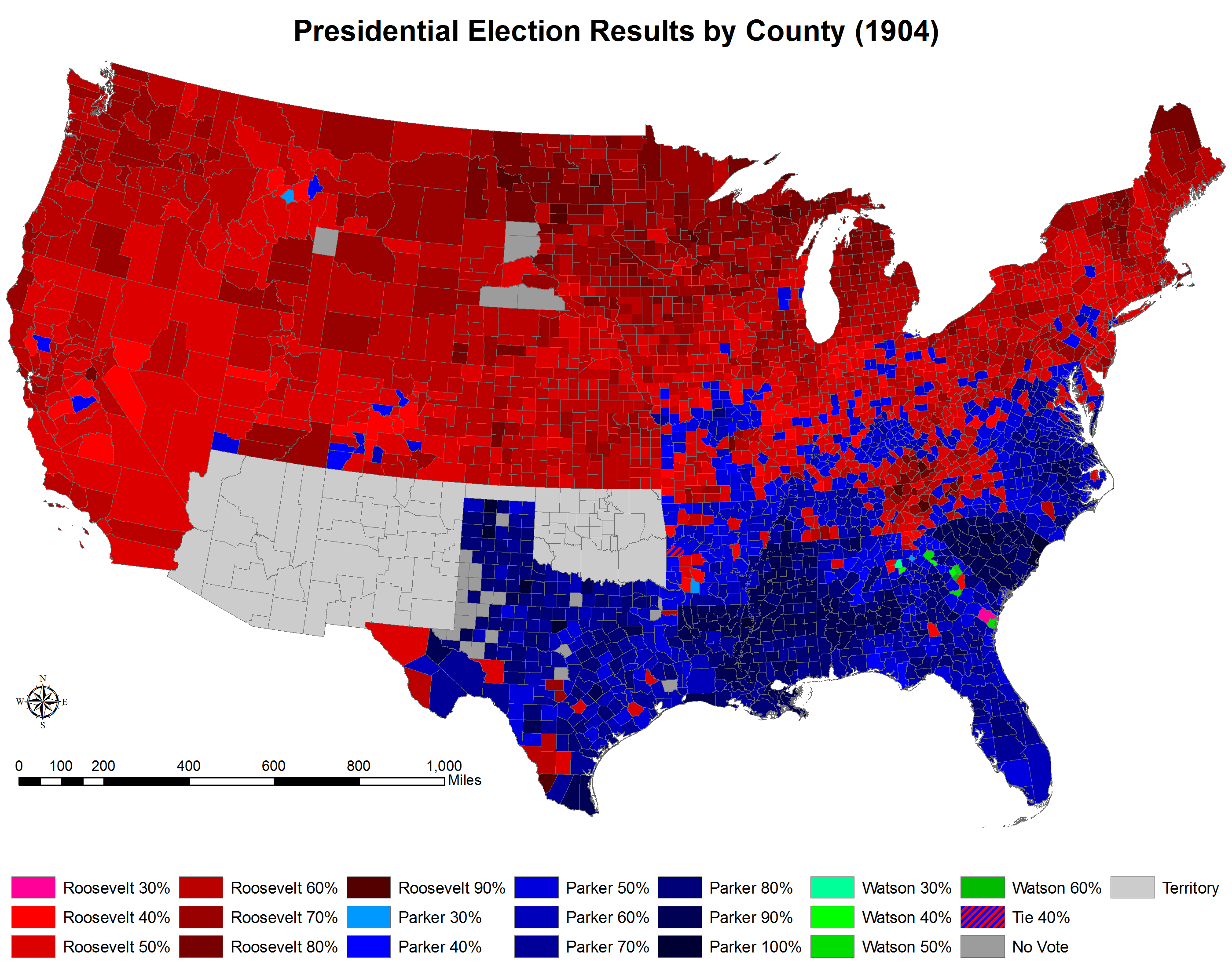 Presidential election results by county (1904).